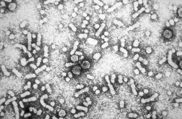 This electron micrograph reveals the presence of hepatitis-B virus HBV "Dane particles", or virions. The infective hepatitis-B (HBV), virions are also known as Dane particles. These particles measure 42nm in their overall diameter, and contain a DNA-based core that is 27nm in diameter.